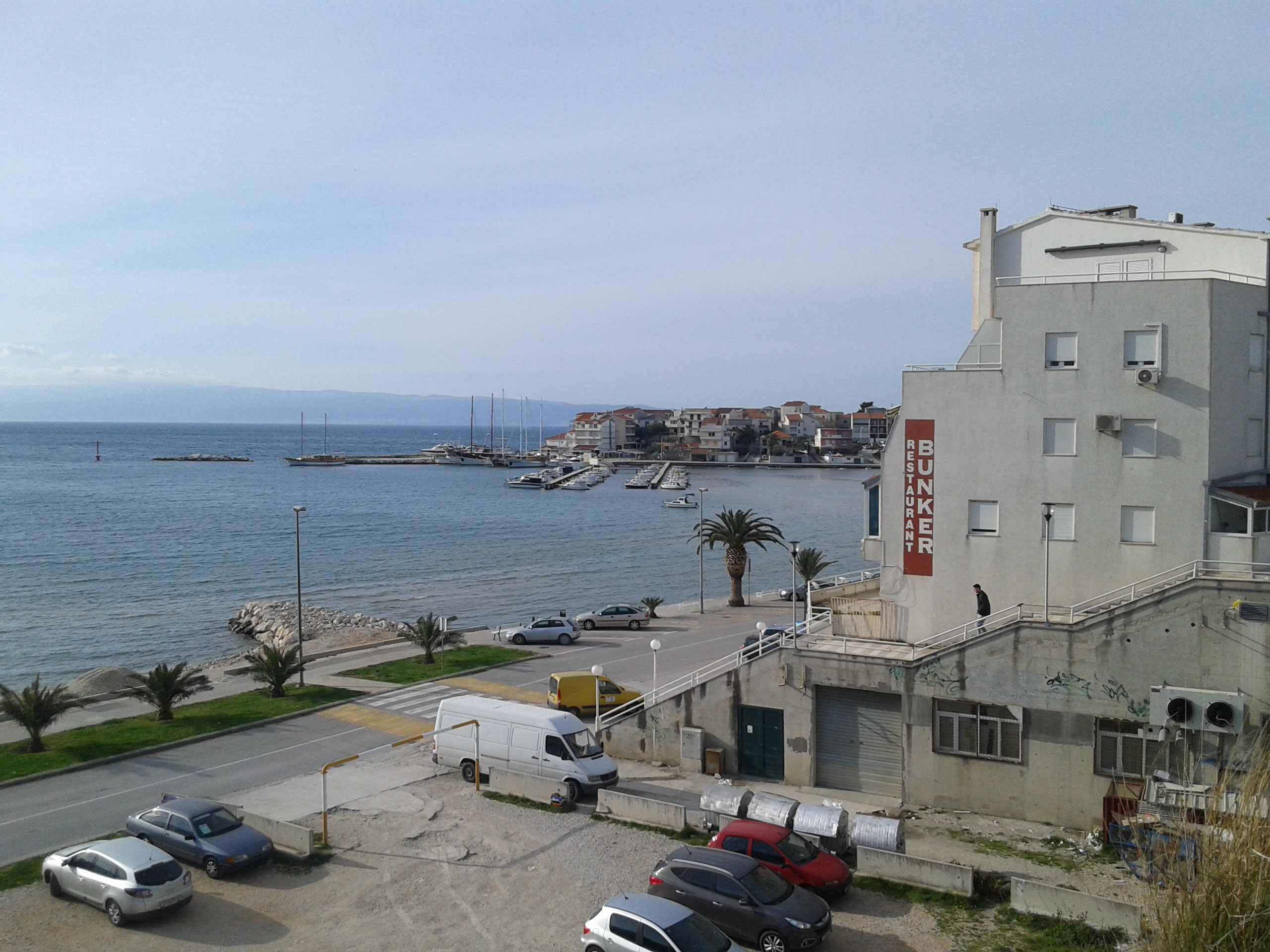 Stobreč